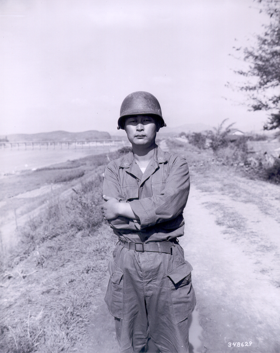 Baek Seon-yeop (Paik Sun-yup) 1950